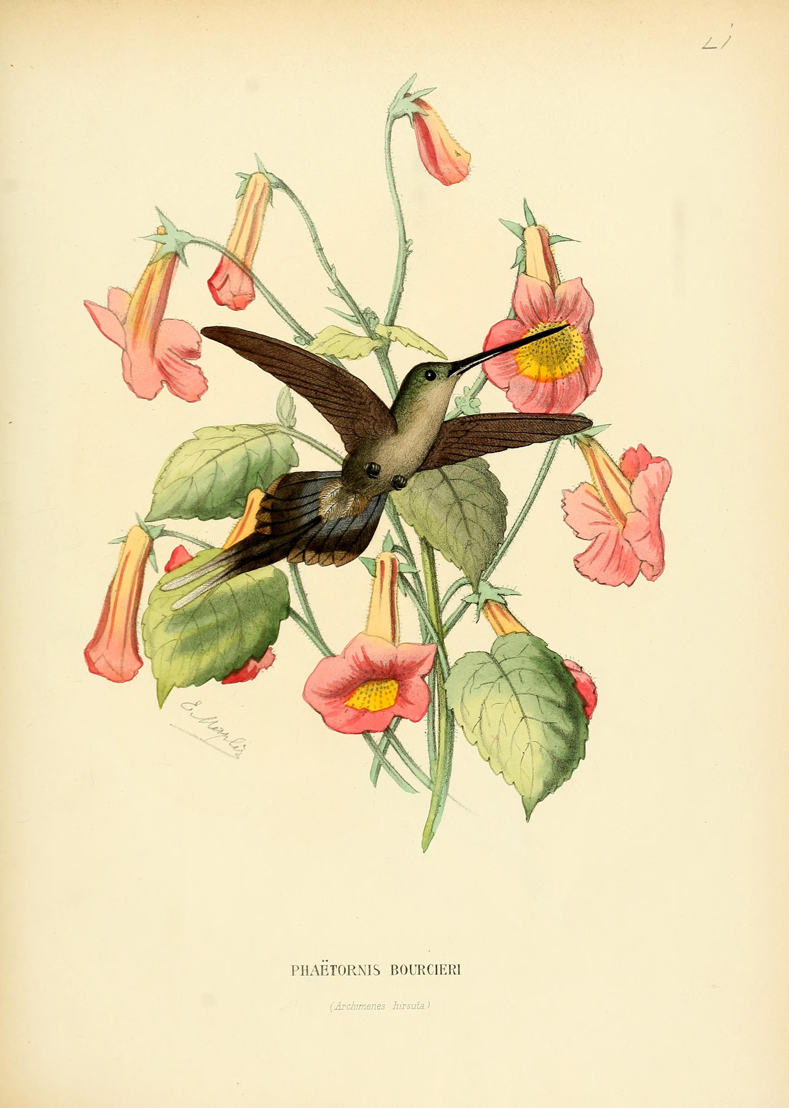 Phaethornis bourcieri